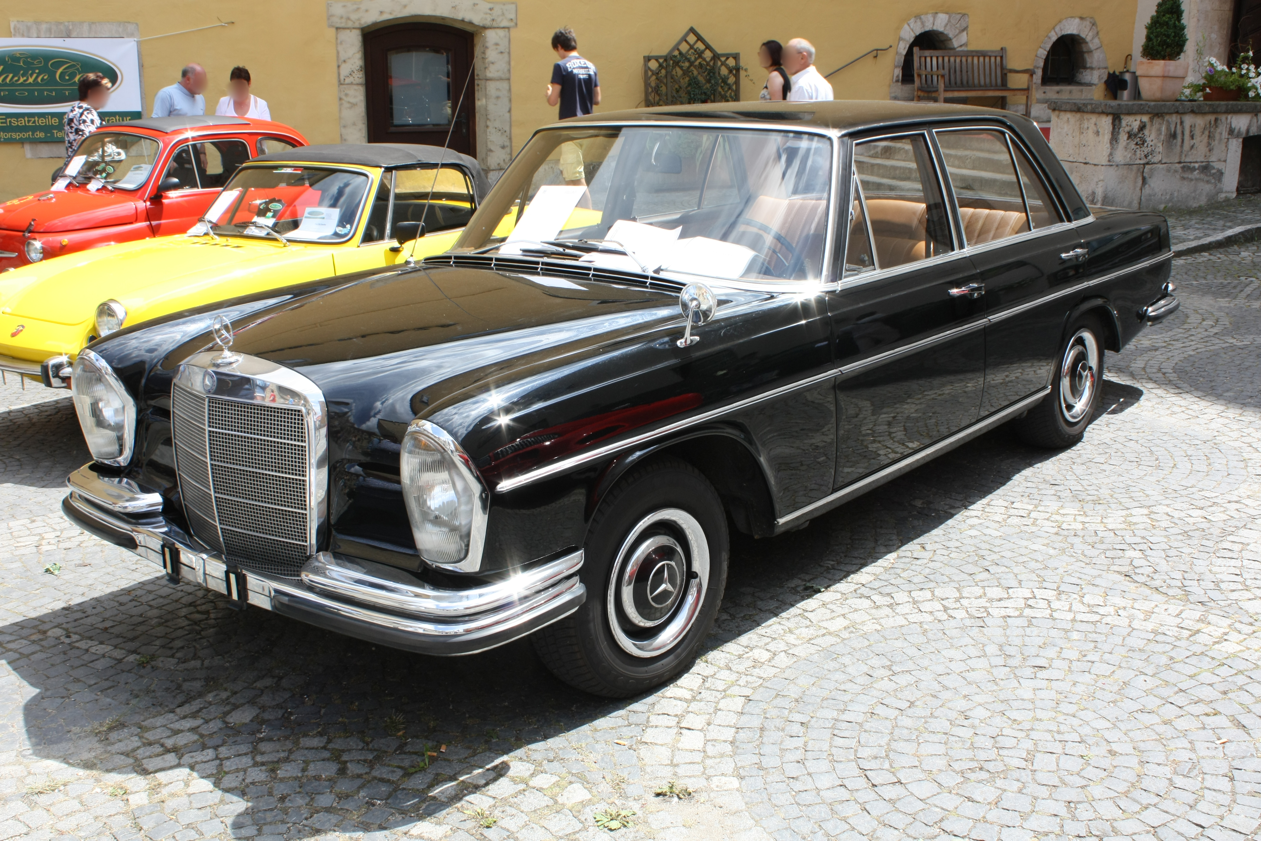 Mercedes-Benz W108 250SE Automatic